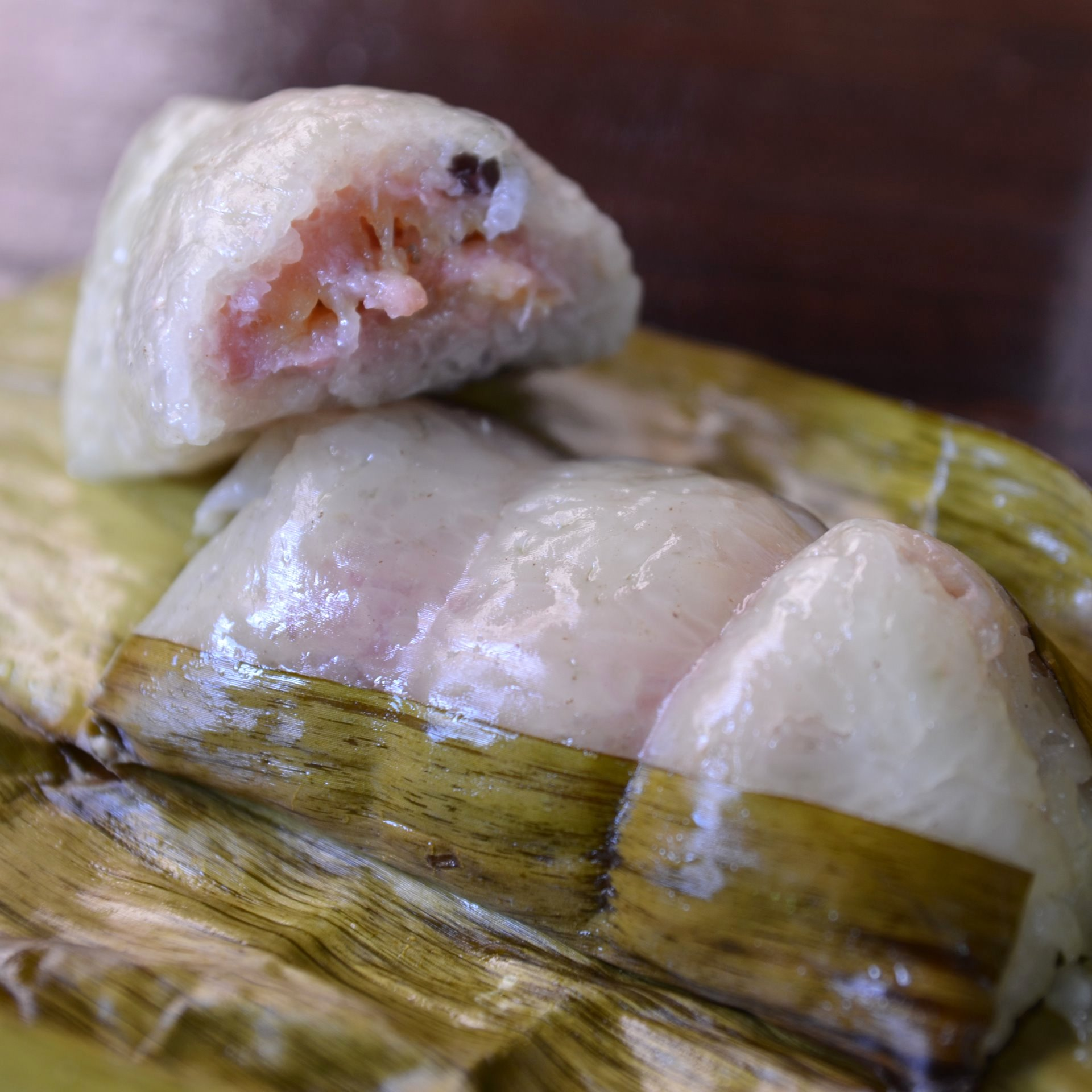 Khao tom mat sai kluai (Thai script: ข้าวต้มหมัดไส้กล้วย) is made by wrapping sweet banana, black beans and sticky rice inside a banana leaf and then steaming this. The banana takes on a pink colour after steaming.